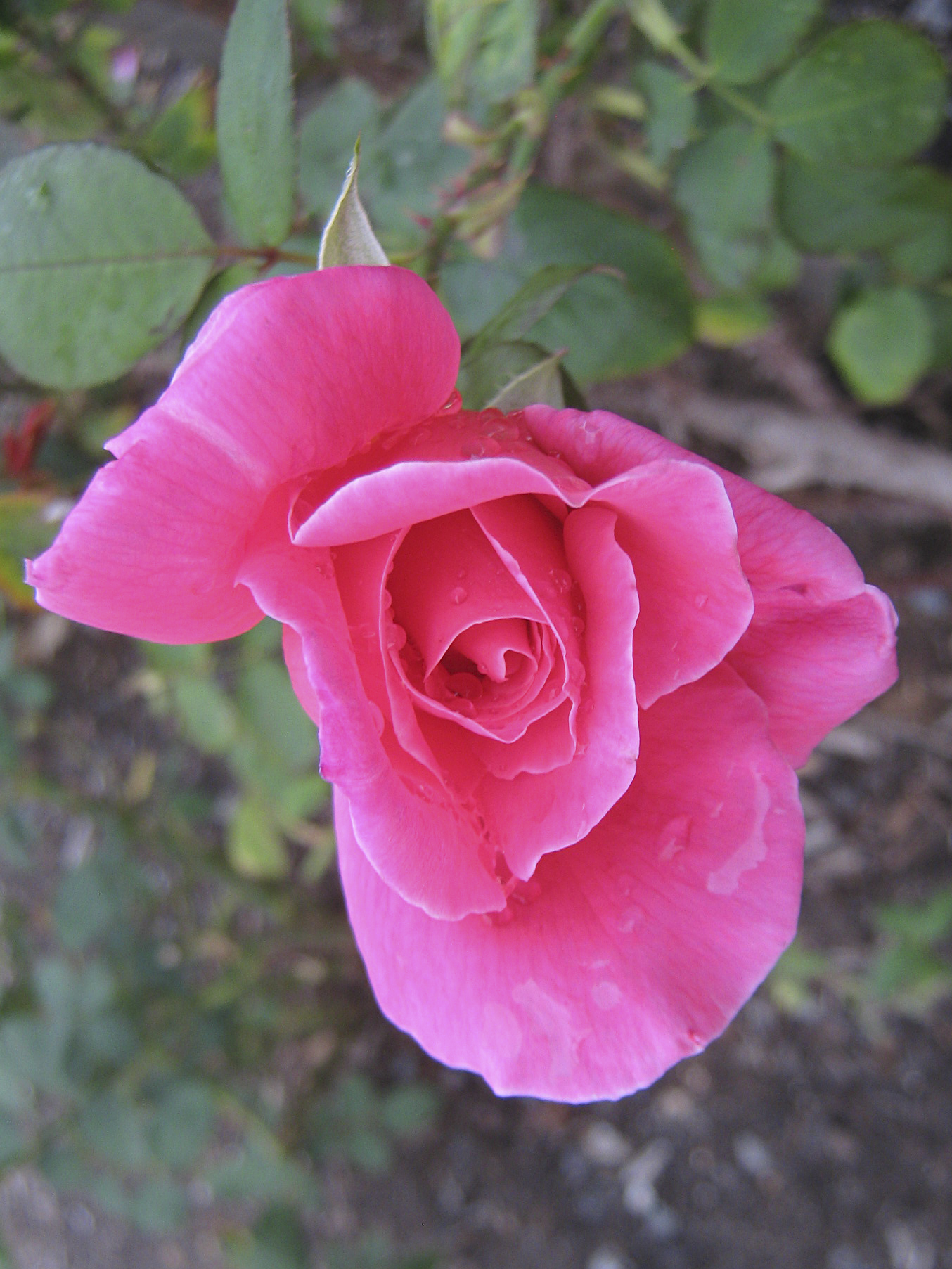 Rose 'Charlotte Armstrong' Hybrid Tea b y Lammerts 1940